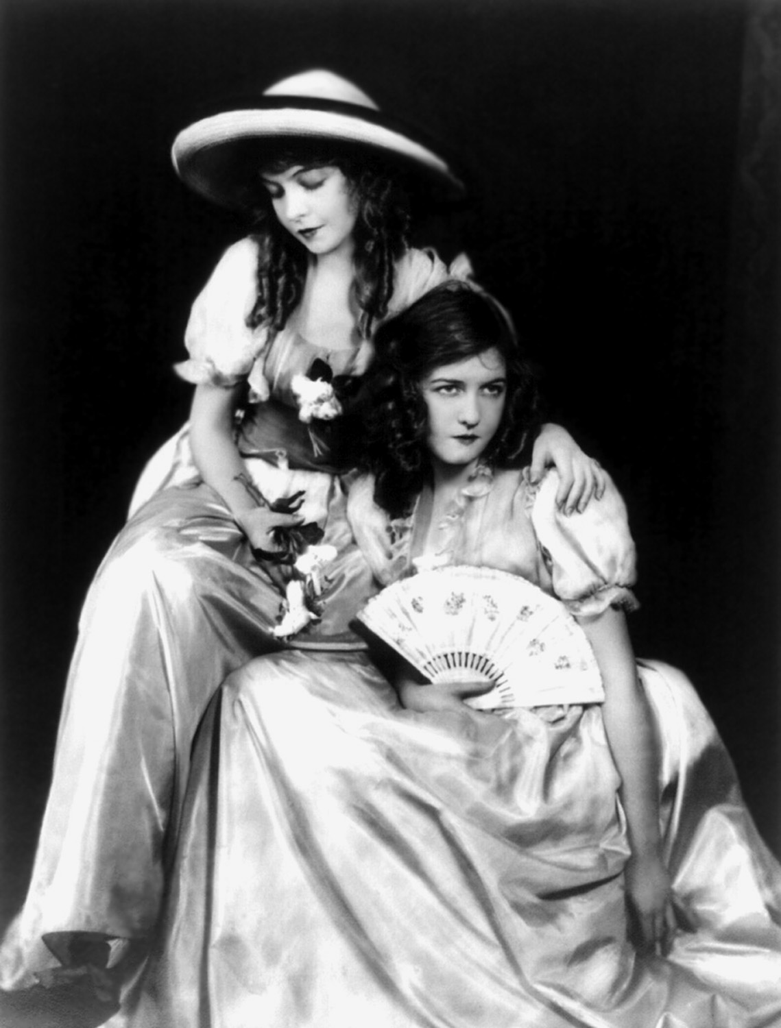 U.S. Library of Congress, LILLIAN AND DOROTHY GISH (Orphans of the Storm - publicity still)